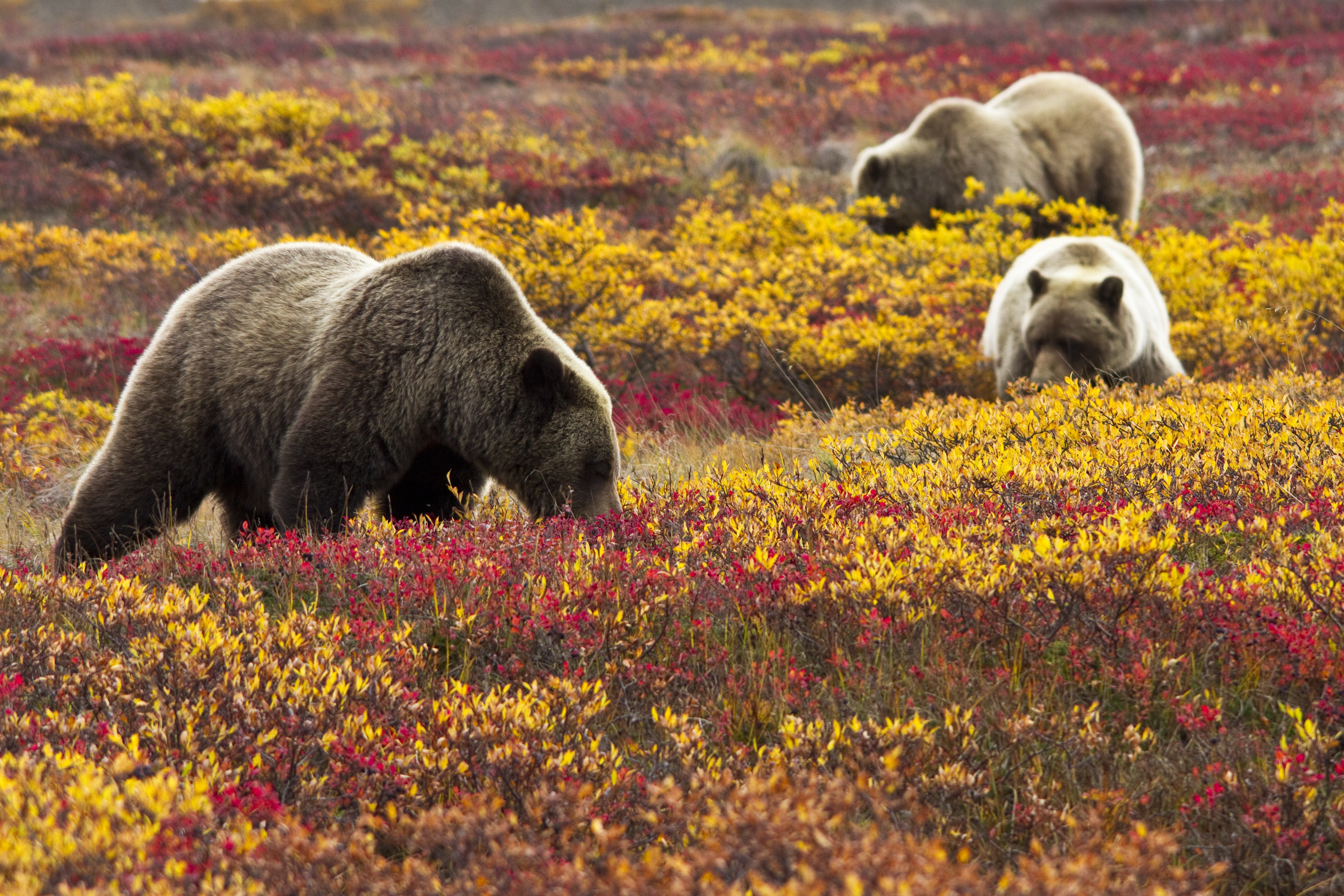 (NPS Photo/Jacob W. Frank) Check out the official Denali Facebook, Twitter and YouTube pages: Like us on Facebook: Follow us on Twitter: Denali YouTube Channel